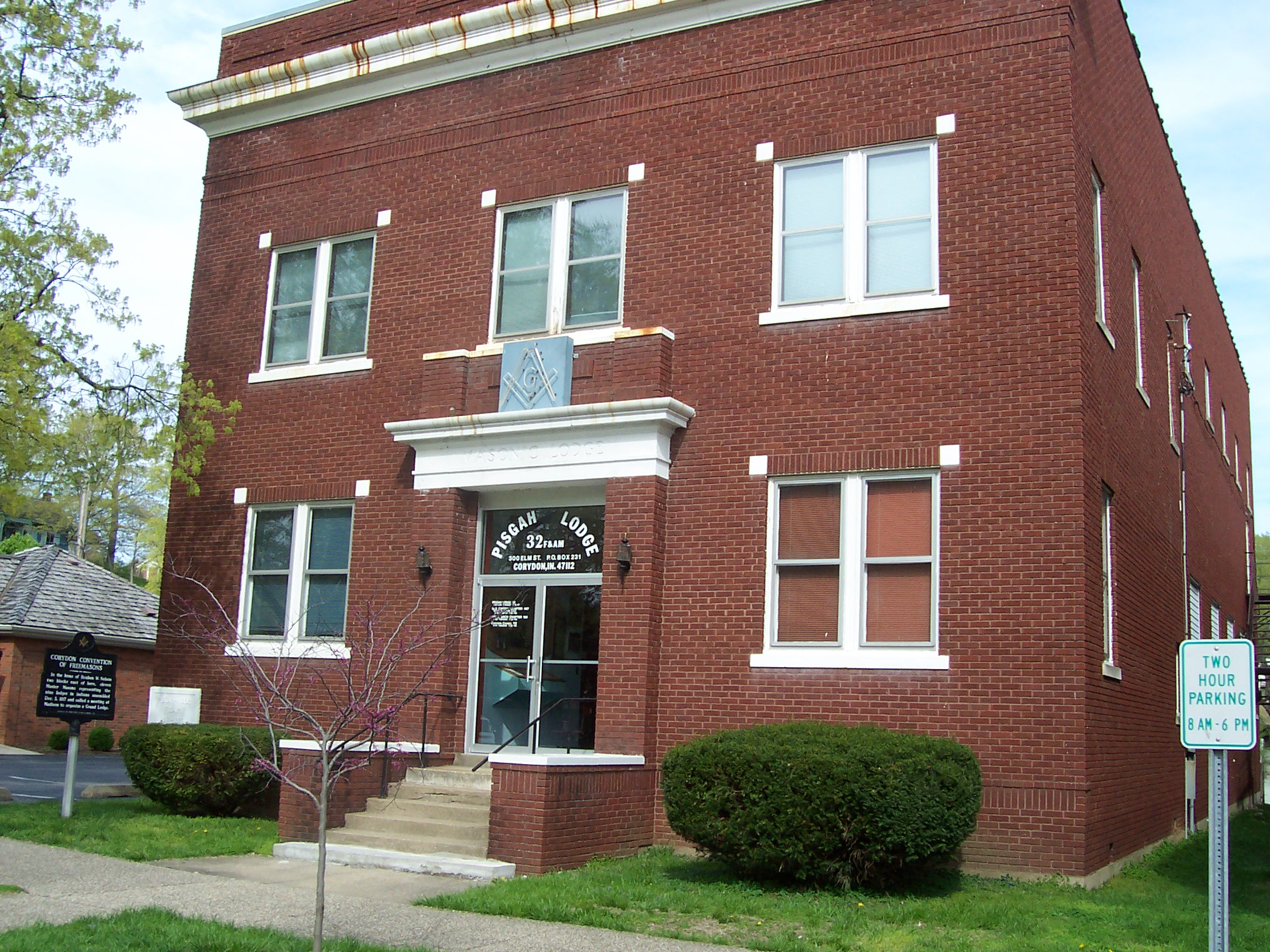 Grand Masonic Lodge in Corydon, Indiana. Established in 1817 by the leading men in the State Government as a private club.